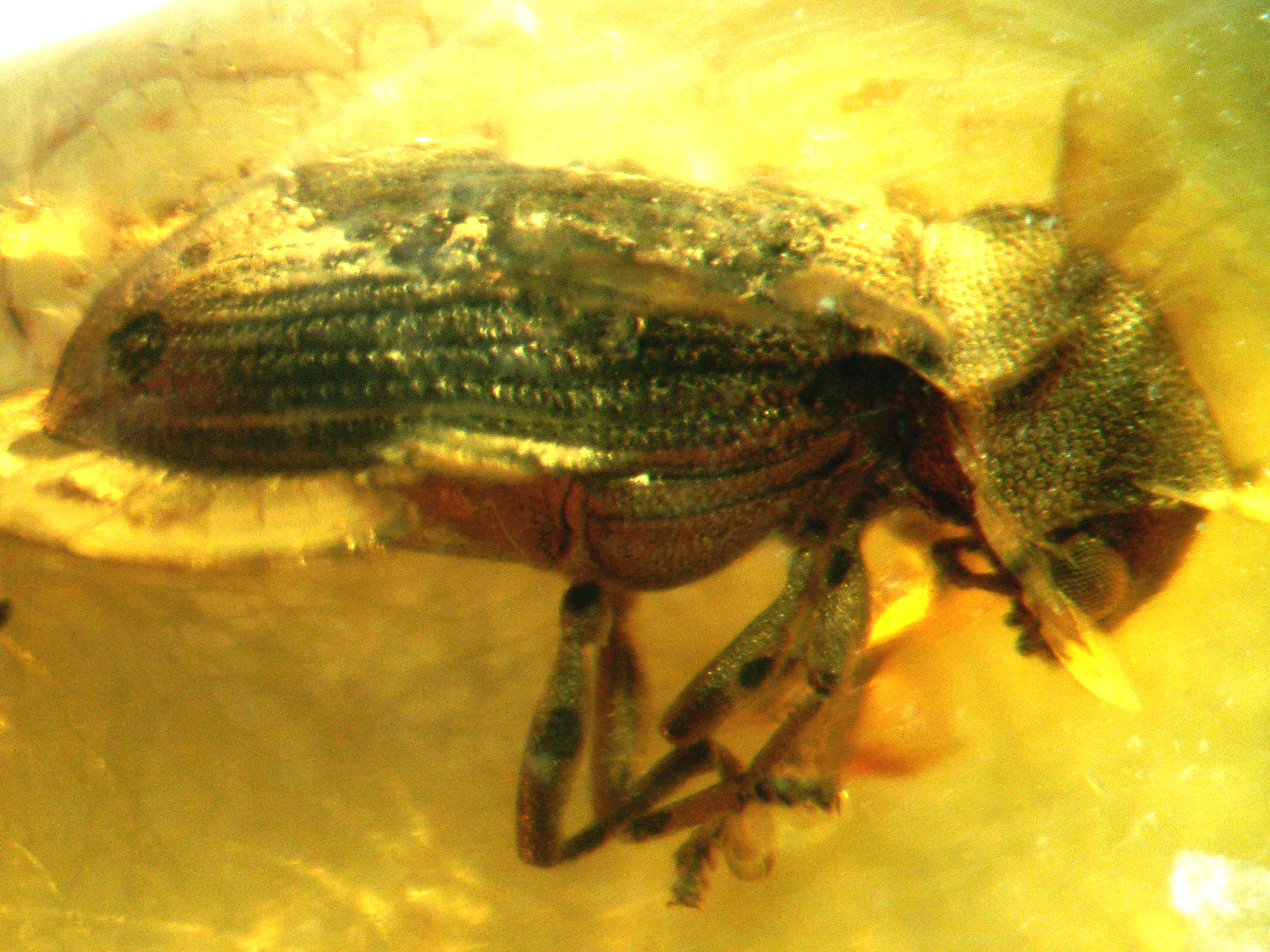 Baltic amber inclusions - 50 million years old - Coleoptera, Anobiidae,...?